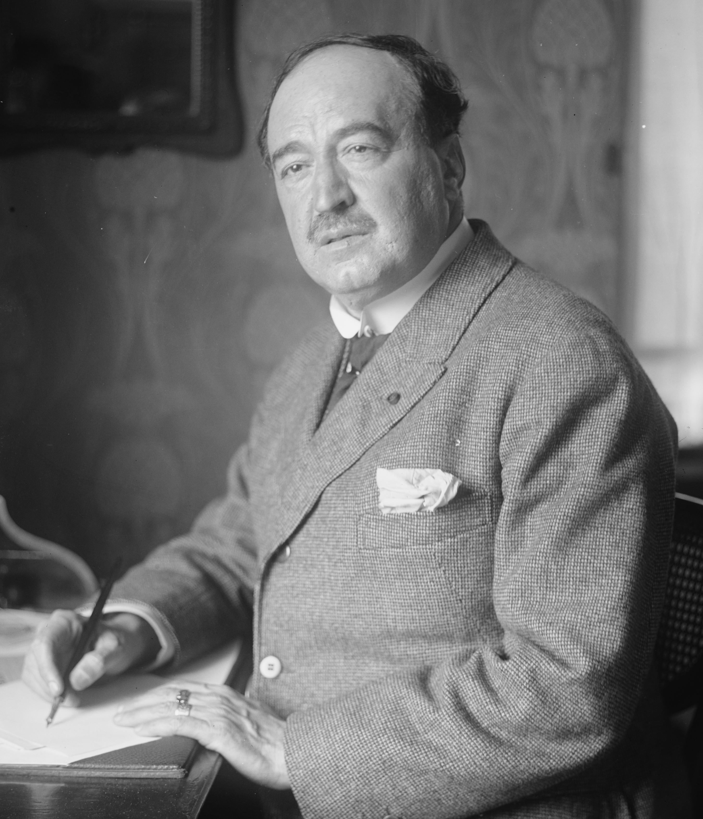 Spanish writer Vicente Blasco Ibáñez (1867-1928)